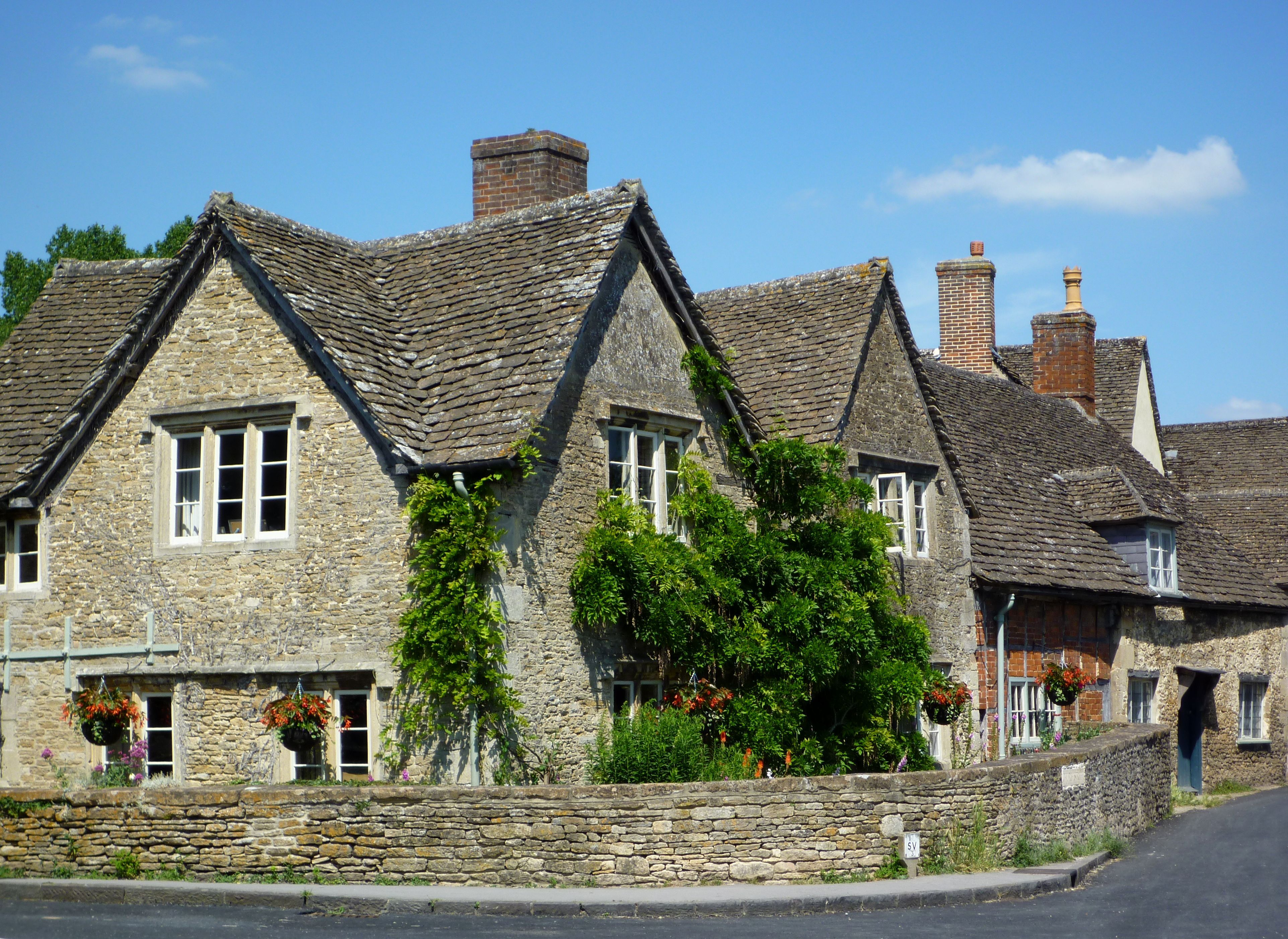 Lacock -Picturesque architecture 13-18.Cent.02.jpg